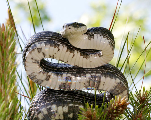 Black Rat Snake, Pantherophis obsoletus. Notes: taking defensive position in sapling in response to the photographer. Note mostly white belly. Location: Chatham County, North Carolina, United States. This may actually be Eastern Rat Snake, Pantherophis alleghaniensis. See discussion at English Wikipedia article on Black Rat Snake.